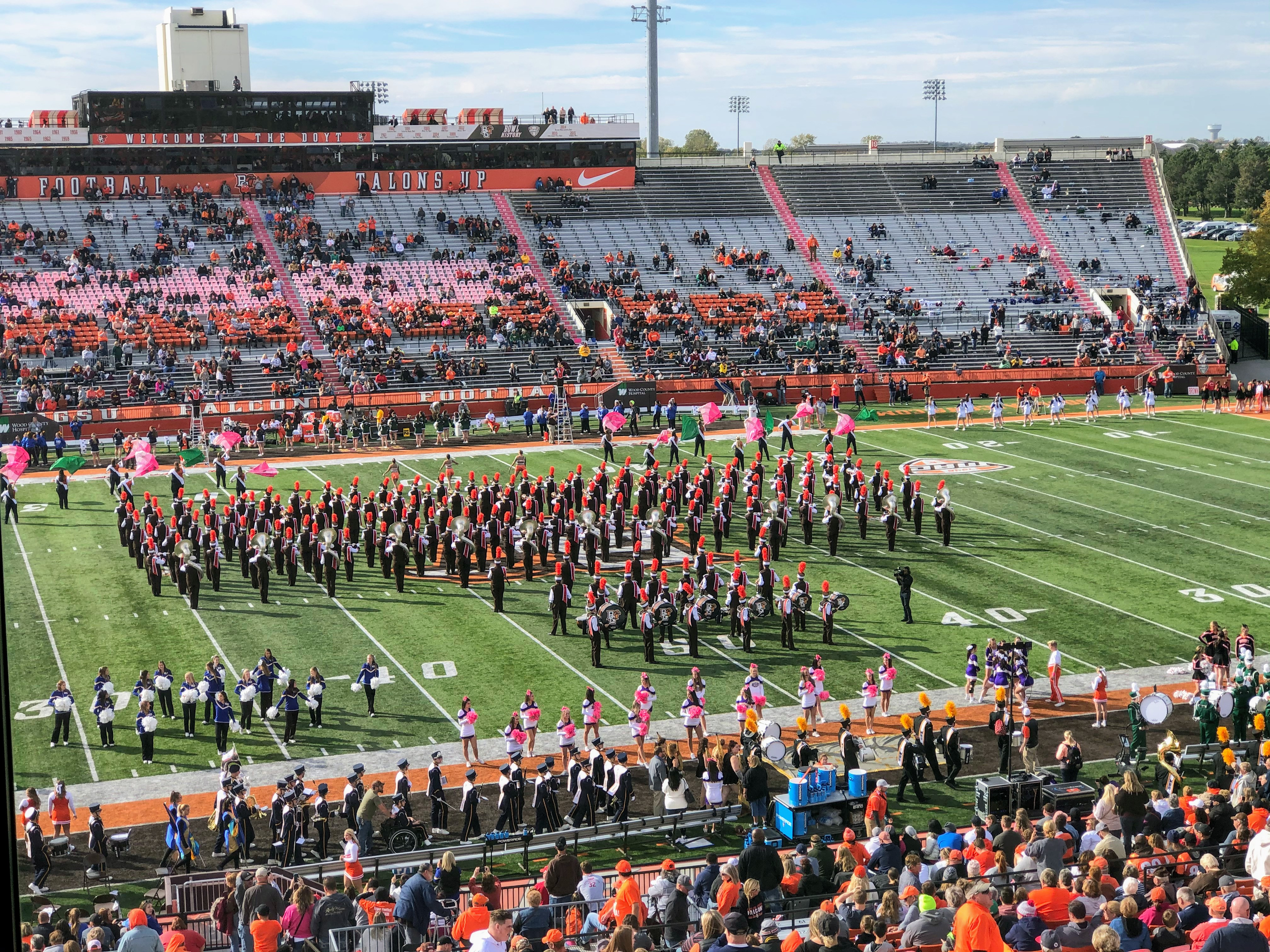 The Falcon Marching Band in October 2019. Normally photography at Football events requires a written letter of consent from the athletics department, so I got permission from Jason Knavel of the Athletics Department.